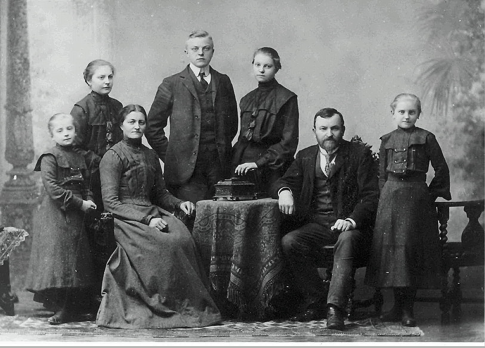 Family Josef Eckert in the Carinthian capital Klagenfurt on the Lake Woerth, Carinthia, Austria